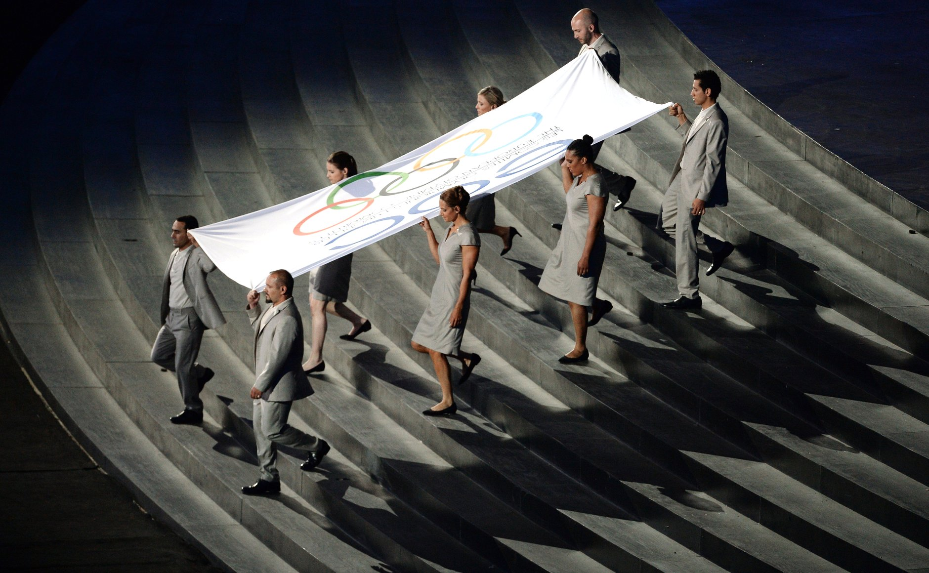 The opening ceremony of the First European Games. Olympic champions make the flag of the European Olympic Committee: Namik Abdullayev (Azerbaijan, freestyle wrestling), Thomas Bimis (Greece, synchronized diving), Niccolò Campriani (Italy, bullet shooting), Lucy Decoss (France, judo), Christina Fazekas (Hungary, kayaking and canoeing), Katie Taylor (Ireland, boxing), Servet Tajegul (Turkey, Taekwondo) and Elena Zamolodchikova (Russia, gymnastics)